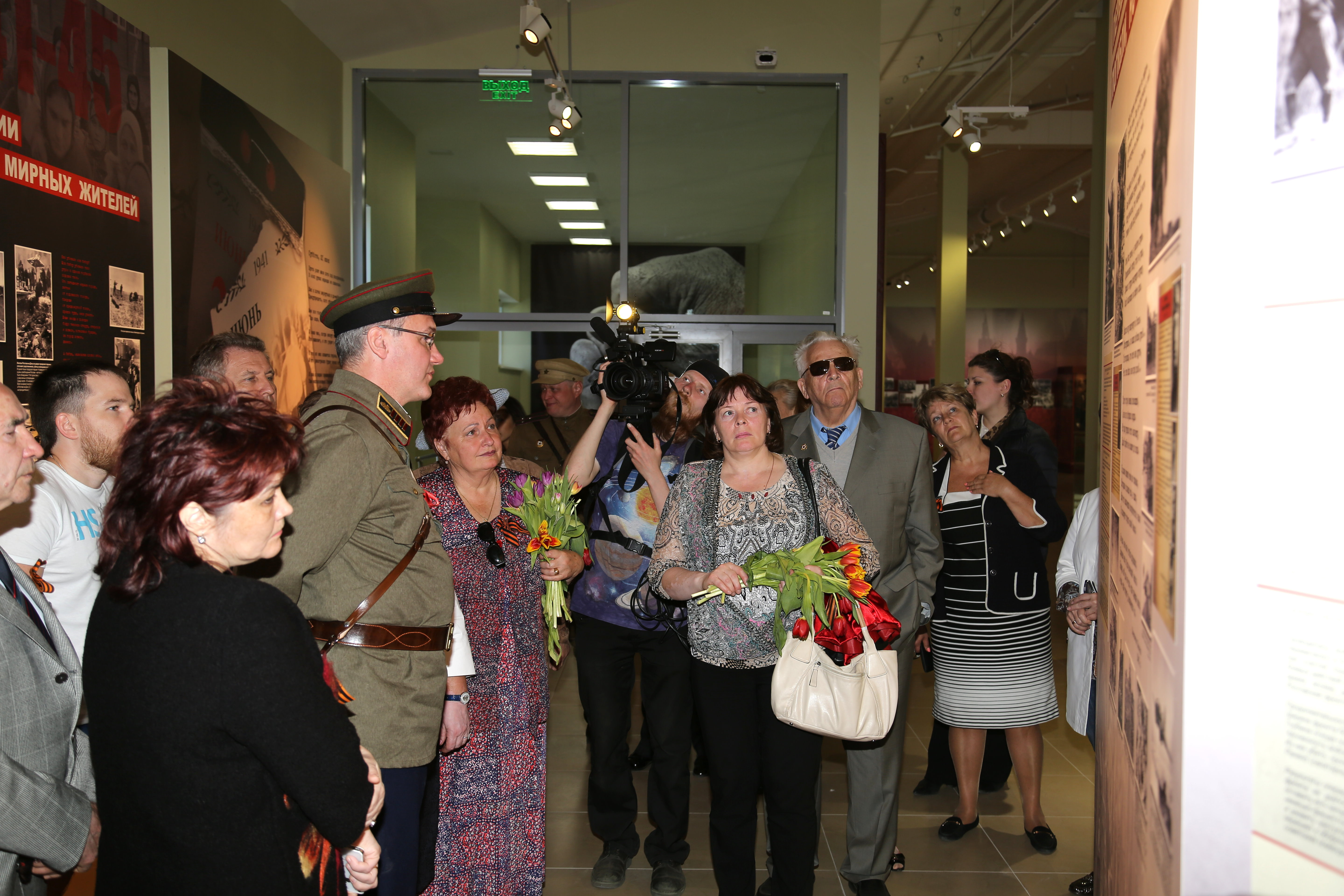 Первая экскурсия в Музее отечественной военной истории